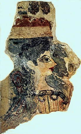 Neopalatial period 1400 B.C. Herakleion Archaeological Museum.